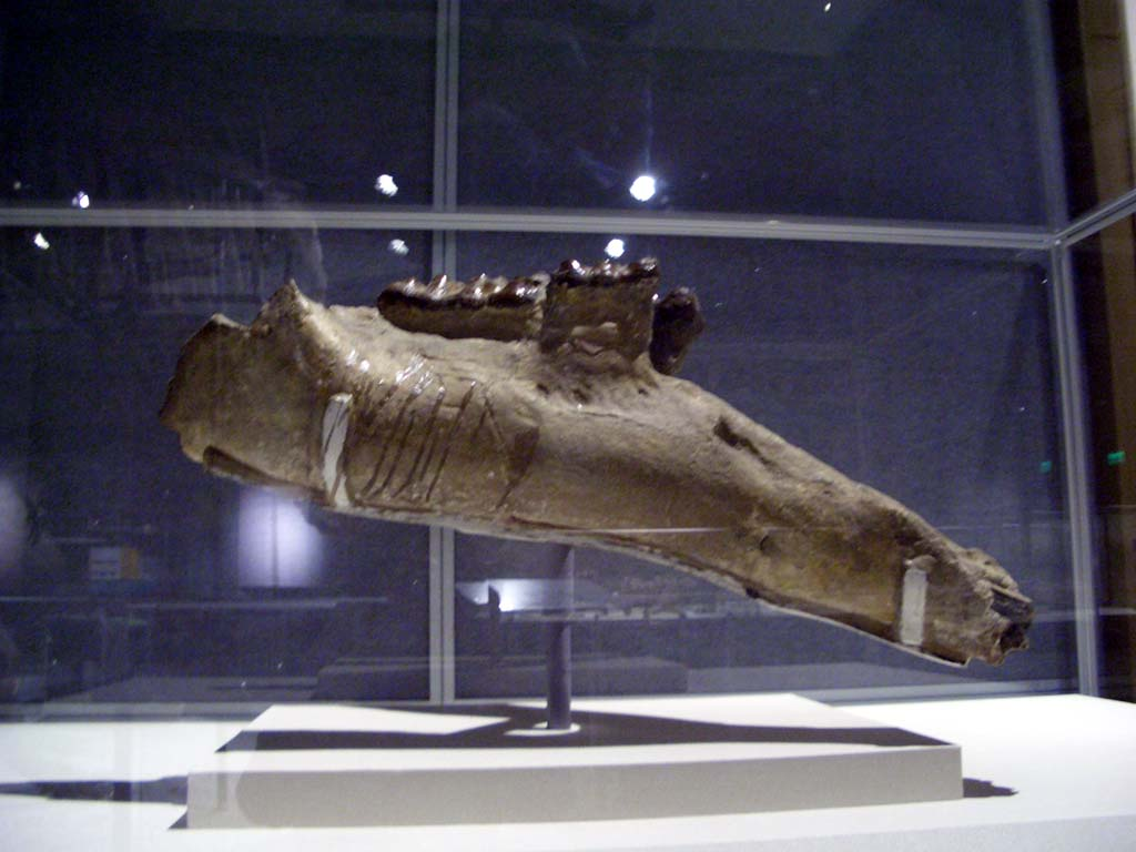 Zygolophodon neimonguensis jaw displayed in Hong Kong Science Museum